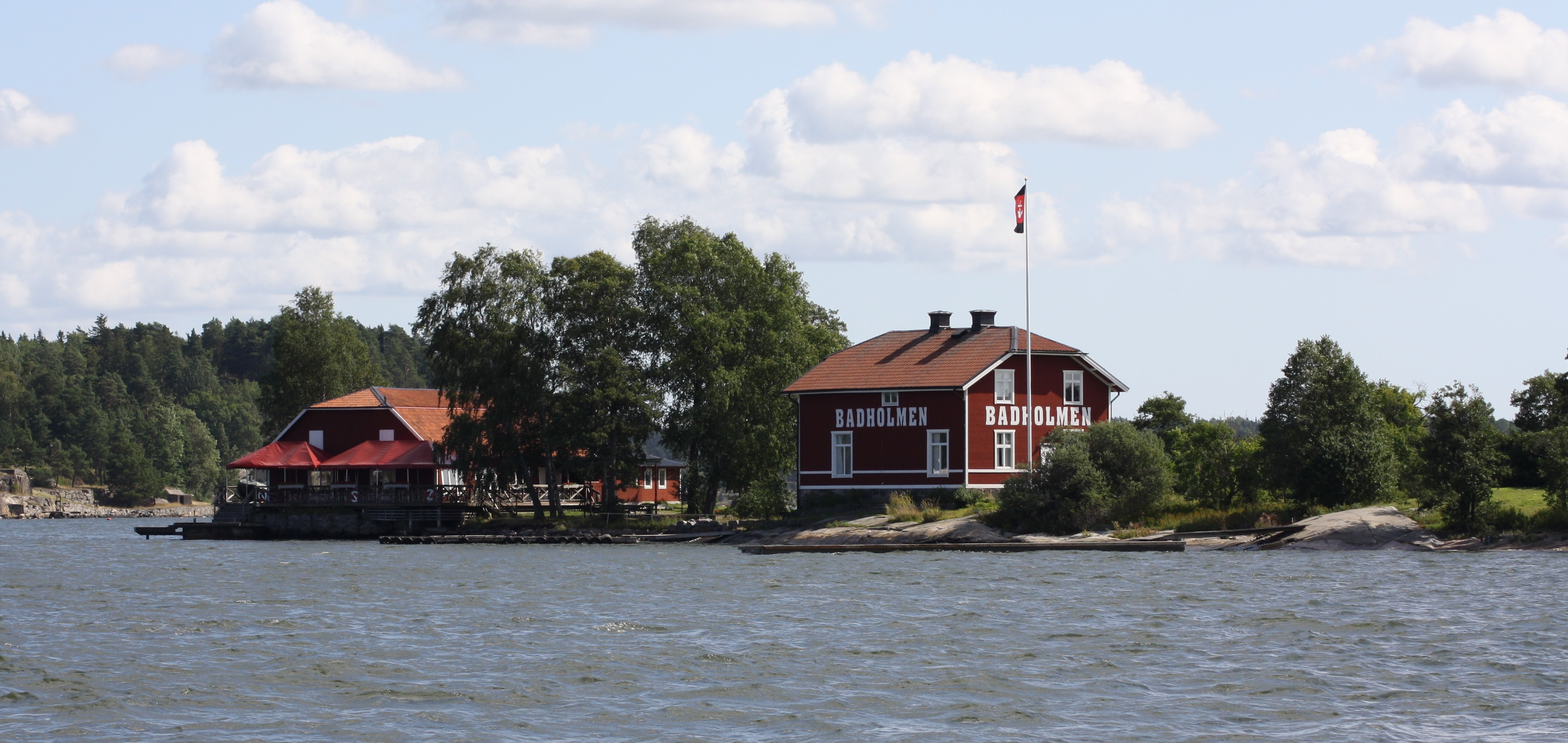 Badholmen, the restaurant island close to Vaxholm in the Stockholm archipelago, Sweden summer 2009